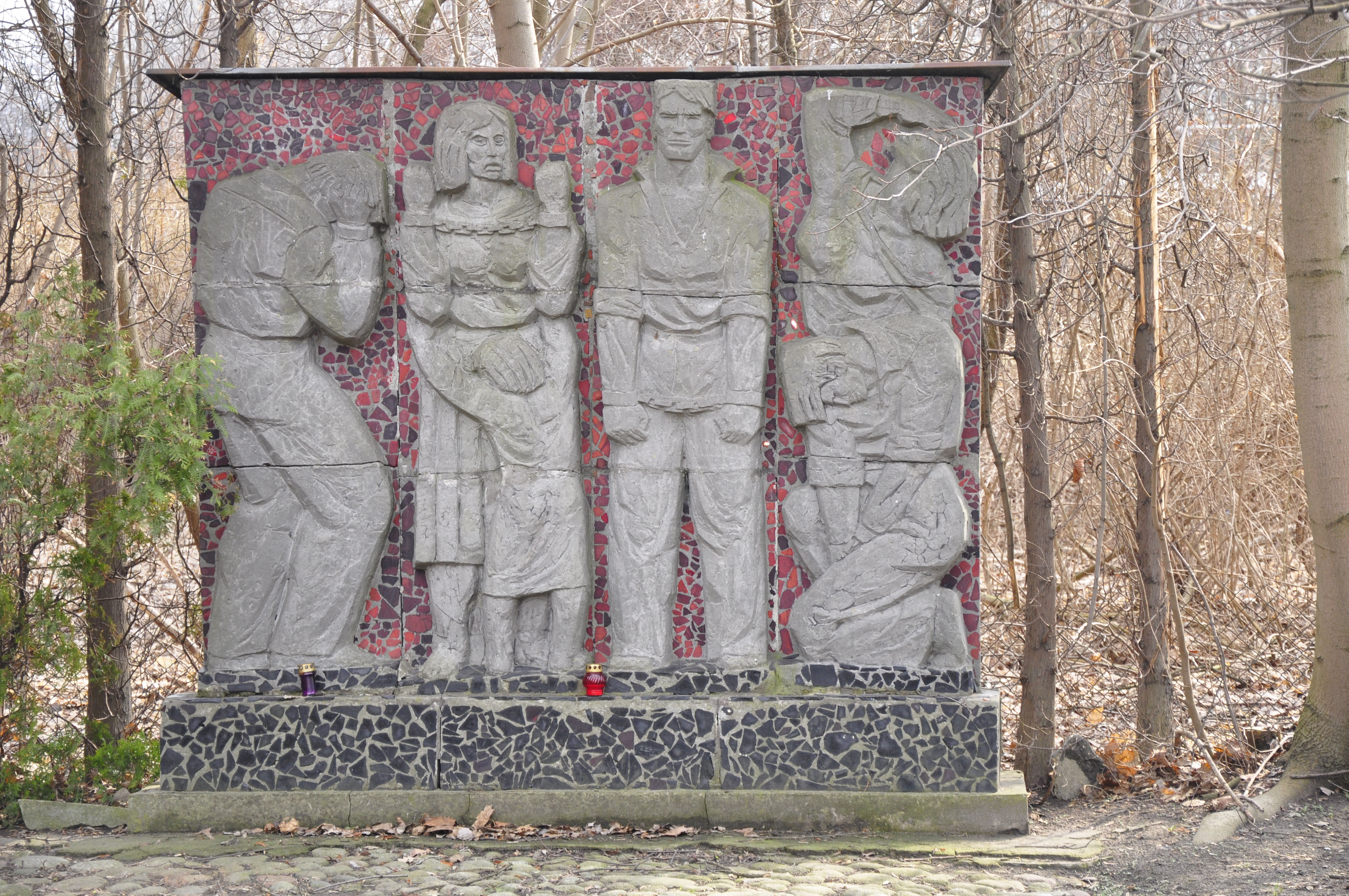 Cytadela Warsaw